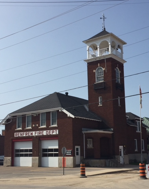 Renfrew Fire Department